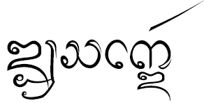 Lanna script: Doi Saket is a district (amphoe) in the eastern part of Chiang Mai Province in northern Thailand. Doi Saket is also the name of a mountain of the Khun Tan Range located in the eastern side of the district with the same name.